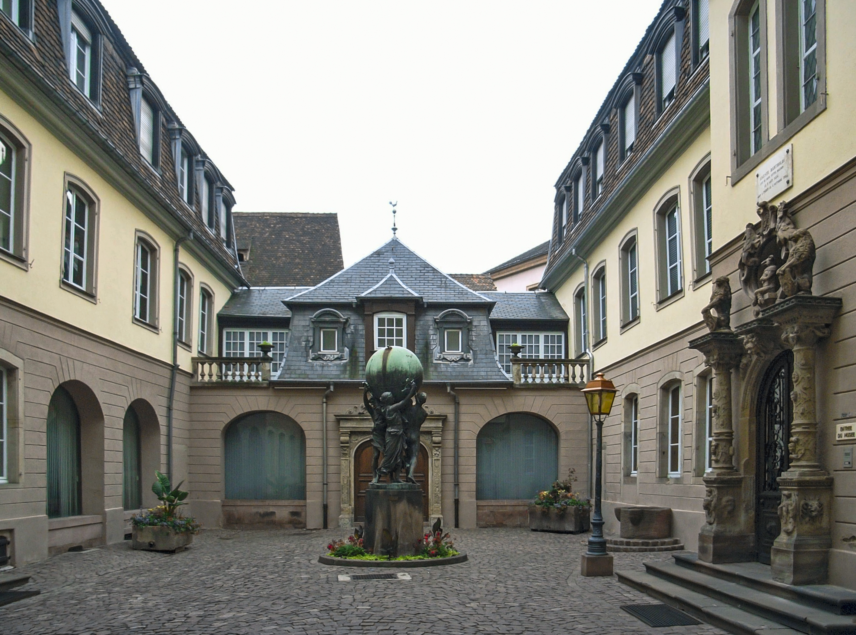 Birthplace of Auguste Bartholdi (museum Bartholdi) in 30 rue des Marchands in Colmar (Haut-Rhin, France). .